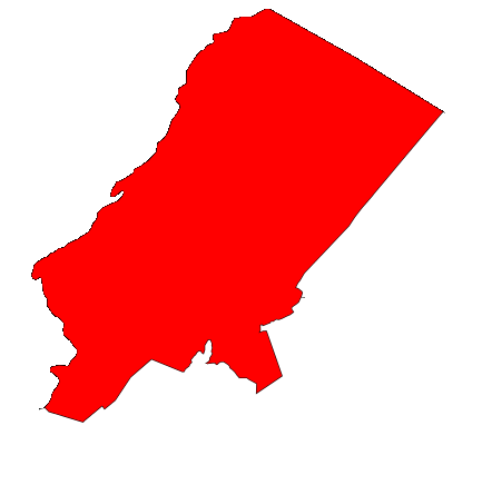 New Jersey's 24th Legislative District-2011 Apportionment